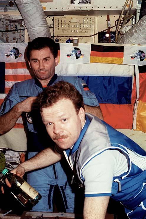 German Astronaut, Reinhold Ewald with Mir-23 commander Vasily Tsibliev in the background, in Mir's Base Block.